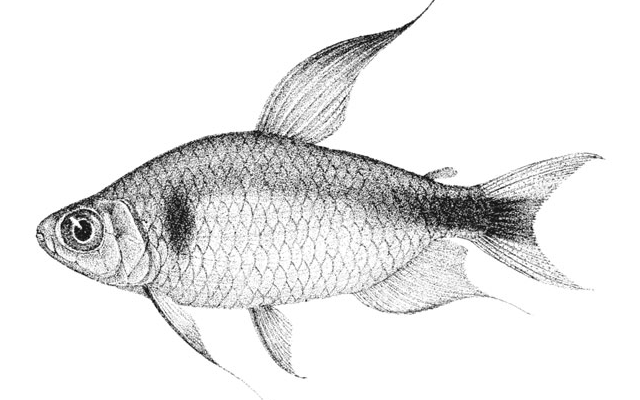 Phenacogrammus ansorgii